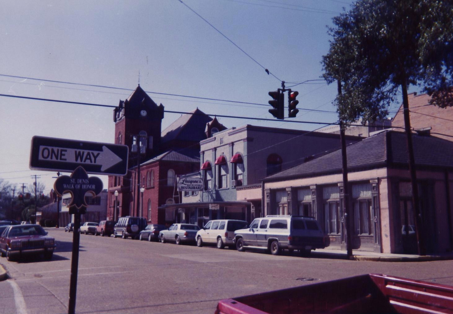 Natchitoches, Louisiana. 2nd Street looking from corner of St. Denis towards Church Street and the old Courthouse. Photo by Infrogmation, about January, 1993.